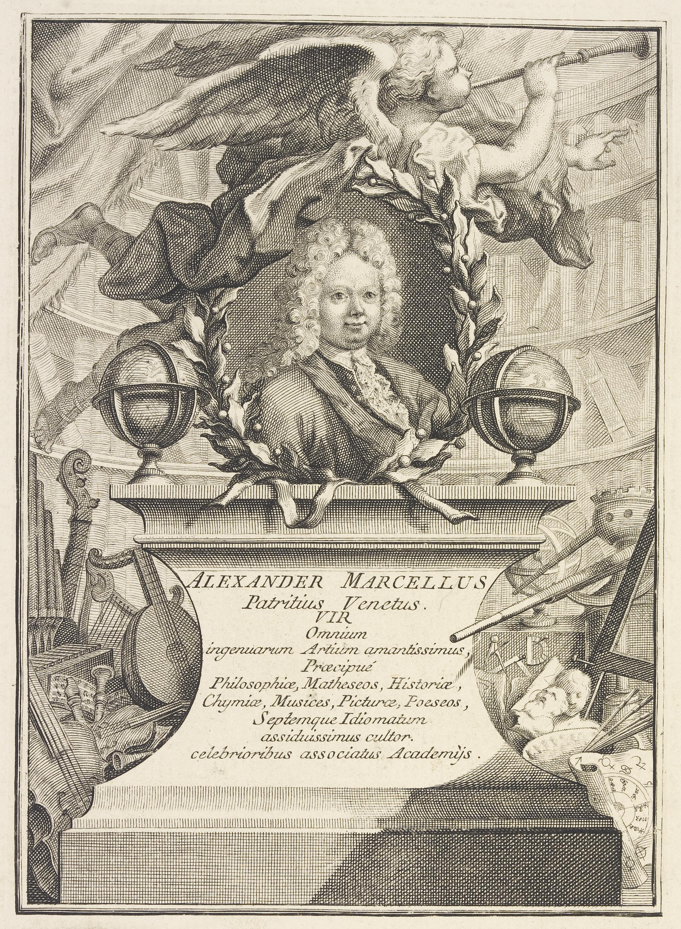 Depicted person: Alessandro Marcello